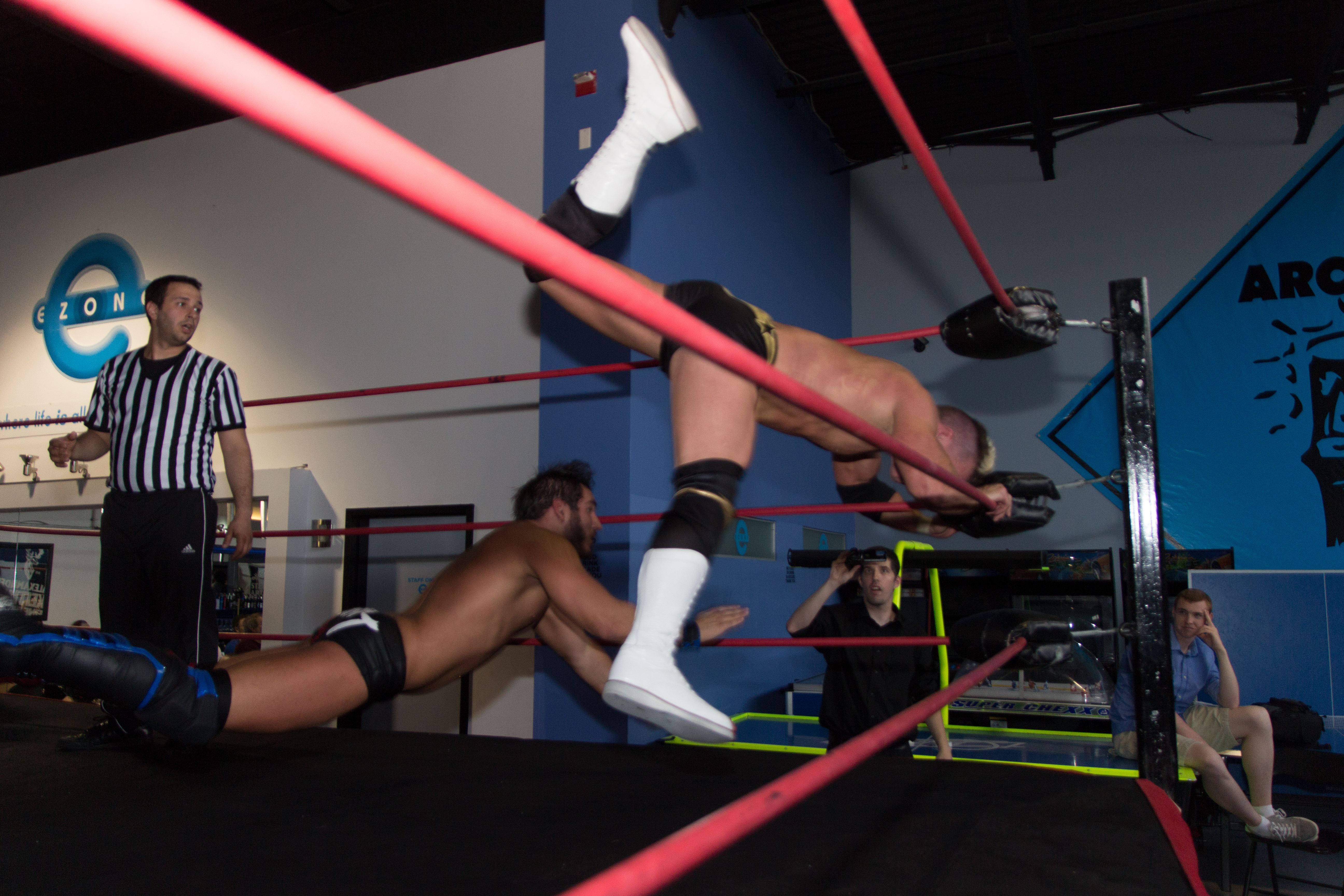 Johnny Gargano executing the Lawn Dart (aka a Running throwing snake eyes into the middle turnbuckle) on Tyson Dux